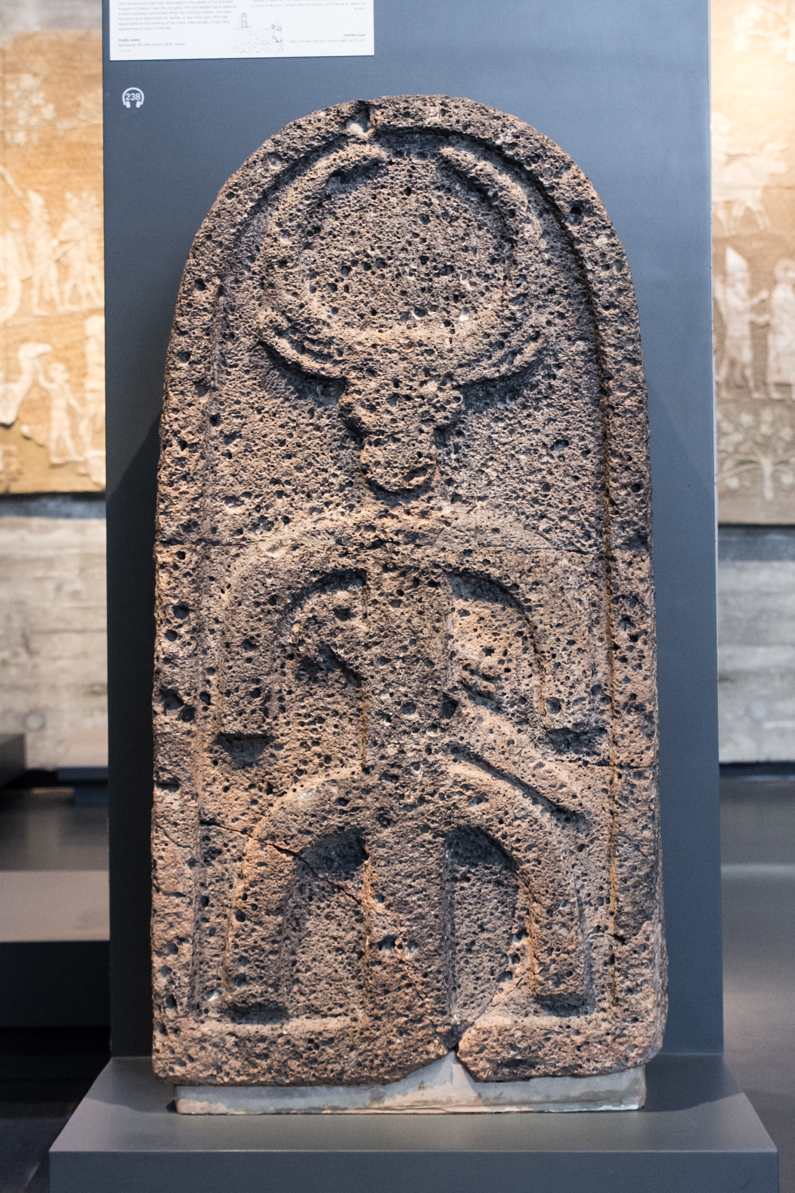 Cultic stele from Bethsaida depicting a Canaanite deity, possibly Hadad. On display at the Israel Museum in Jerusalem